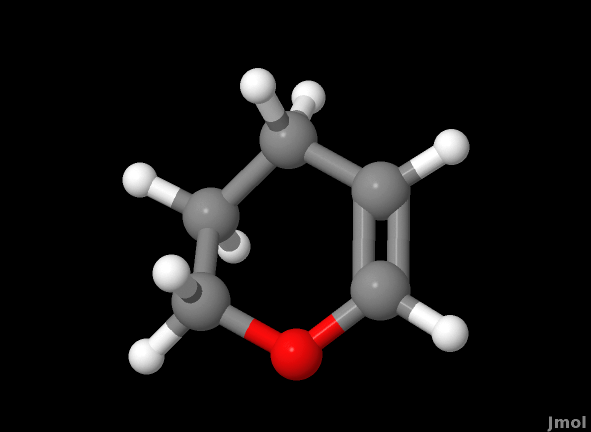 IUPAC Name: 3,4-dihydro-2H-pyran